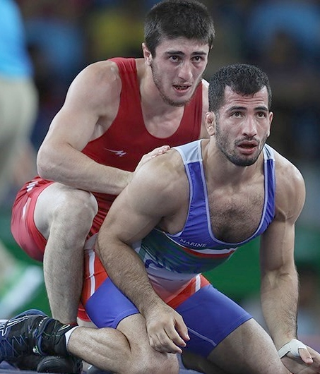 2016 Summer Olympics, Greco-Roman Wrestling 66 kg - Shmagi Bolkvadze v Omid Norouzi